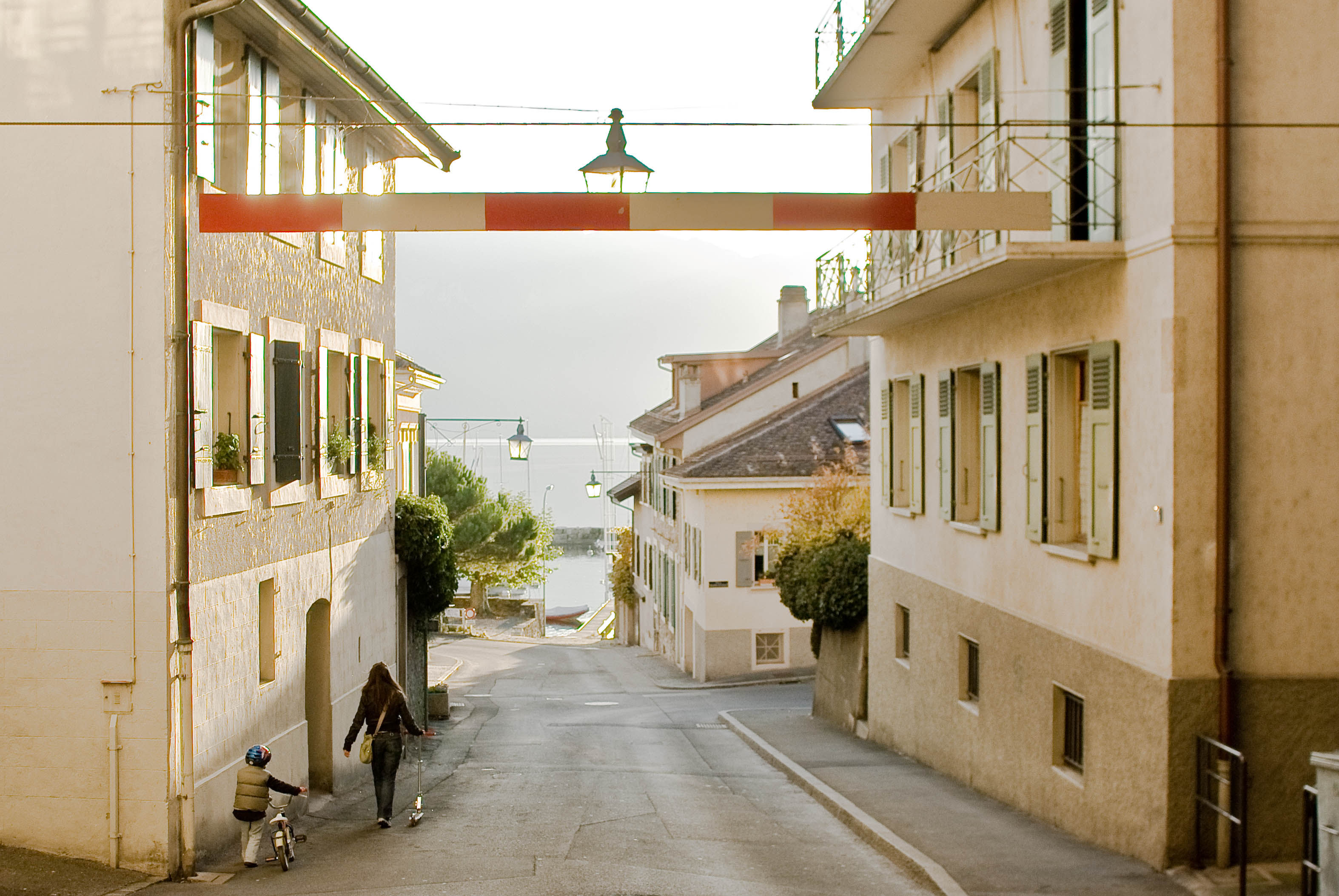 Street in La Tour-de-Peilz, Switzerland.